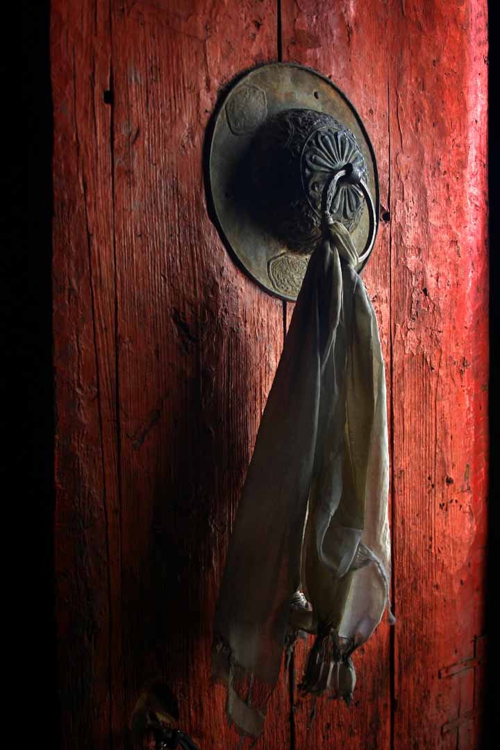 The white silk or satin scarf is a sign of blessing in the Himalayan Buddhist culture. Often visitors are presented with one as a sign of honor, respect, and blessing. Many times these scarves are attached to places of particular interest of significance. This is a closeup of an ancient monestary door in Leh, Ladakh.